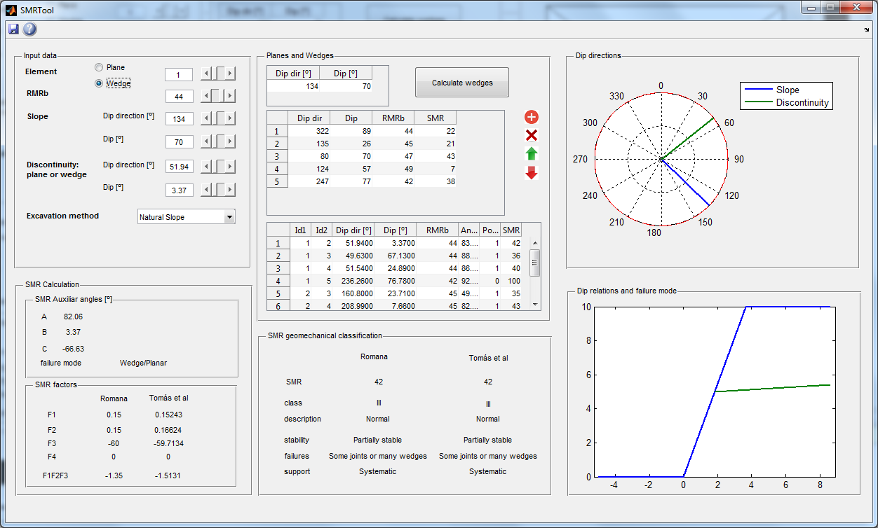 Screenshot of the open source software SMRTool, which allows the user to automatically calculate the SMR adjustment factors from the slope and discontinuity orientation angles.